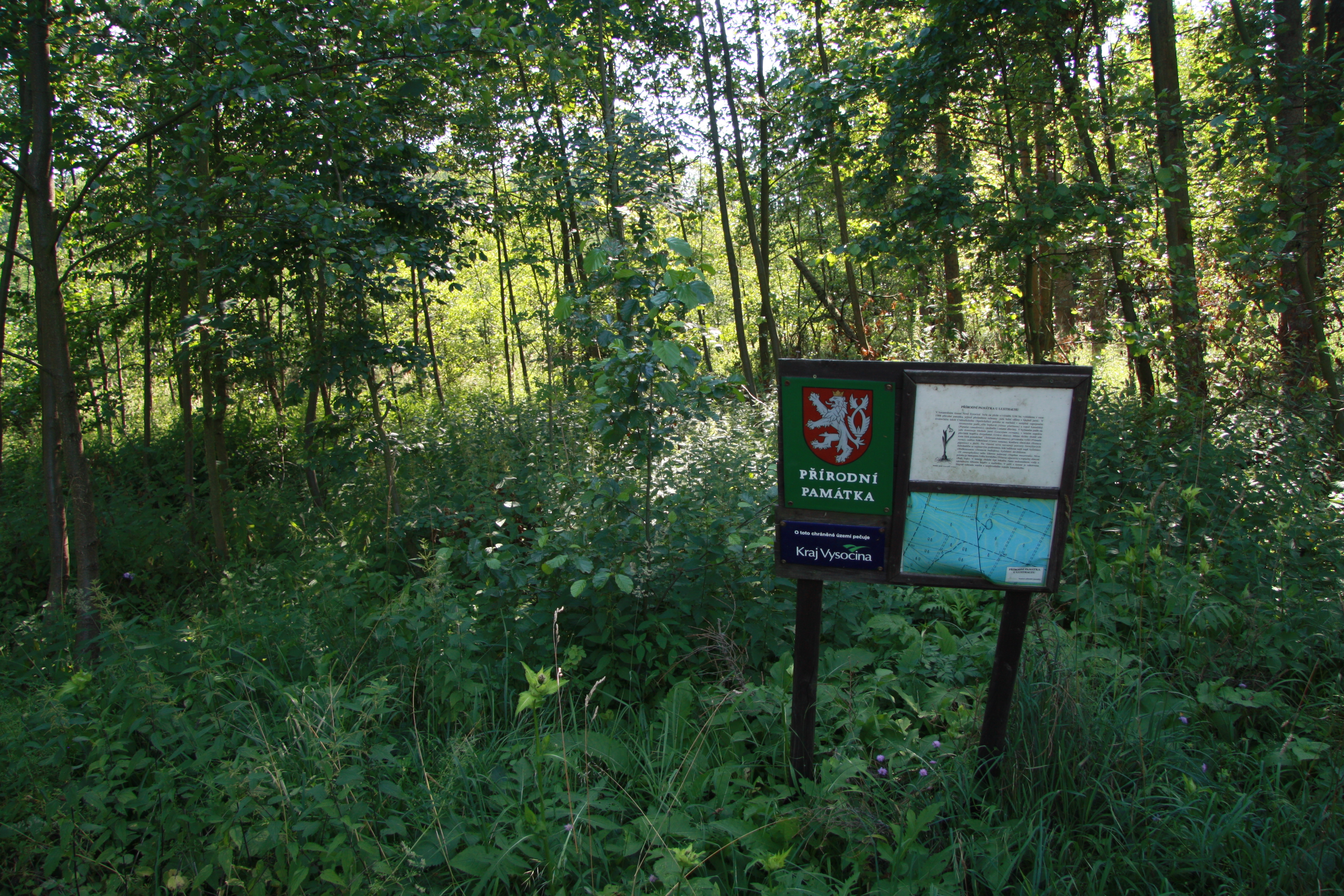 Overview and sign in natural monument U lusthausu, Třebíč District.